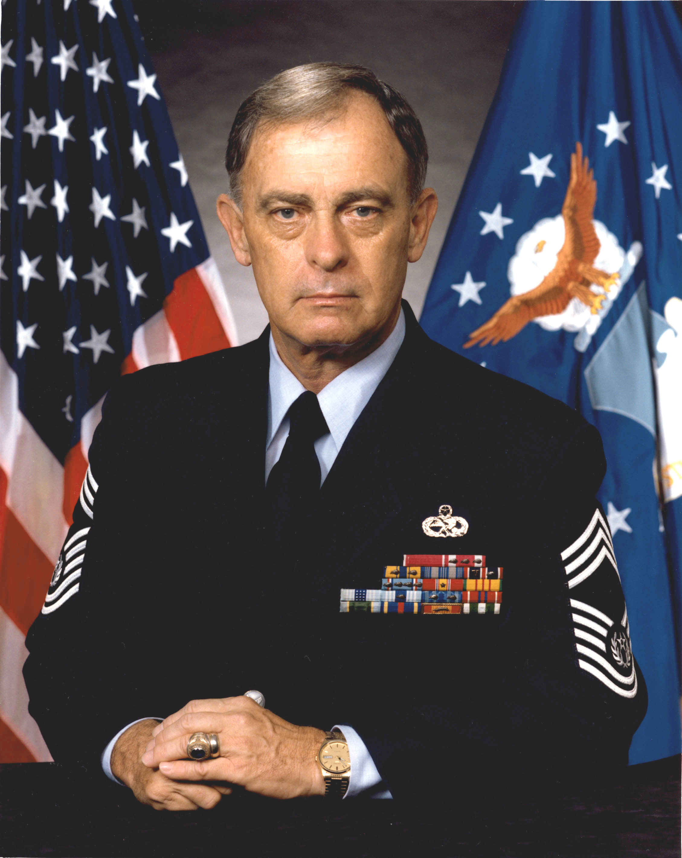 Chief Master Sergeant of the Air Force Gary R. Pfingston was the 10th Chief Master Sergeant appointed to the highest noncommissioned officer (NCO) position in the United States Air Force.